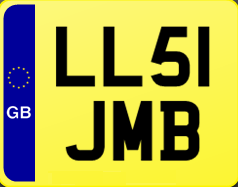 GB Motorcycle Number Plate